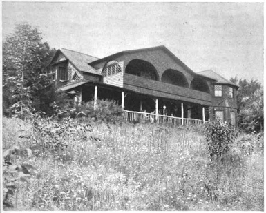 In 1888, Mary Mapes Dodge purchased a cottage, which she named "Yarrow", in the summer colony at Onteora Park, Onteora Park, Tannersville, New York, upon the slope of Onteora Mountain, in the Catskill Mountains.